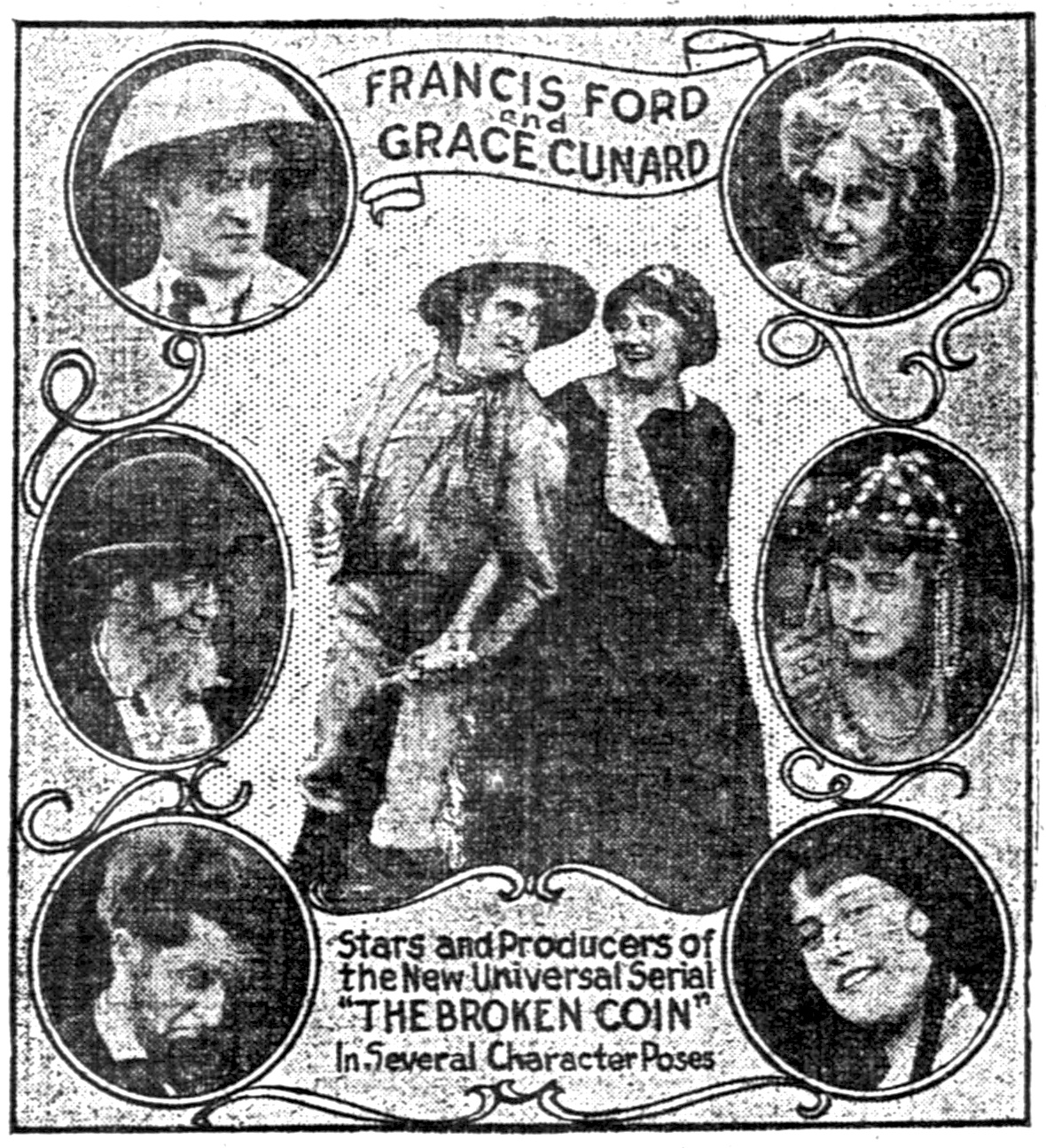 The Broken Coin is a 1915 adventure-mystery film serial directed by Francis Ford. This image is from an article an a newspaper.